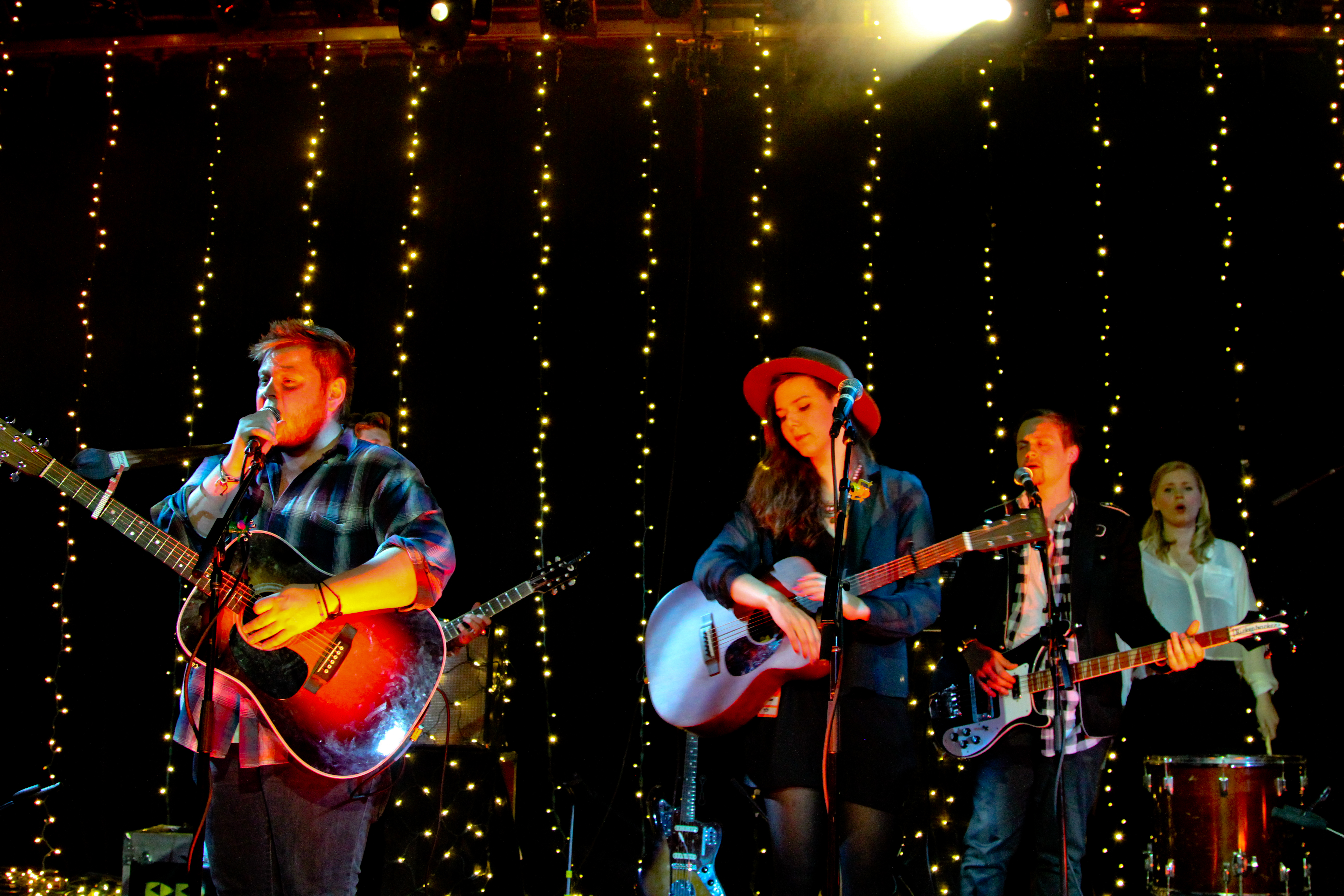 Of Monsters and Men Playing at the Music Hall of Williamsburg on April 5th, 2012